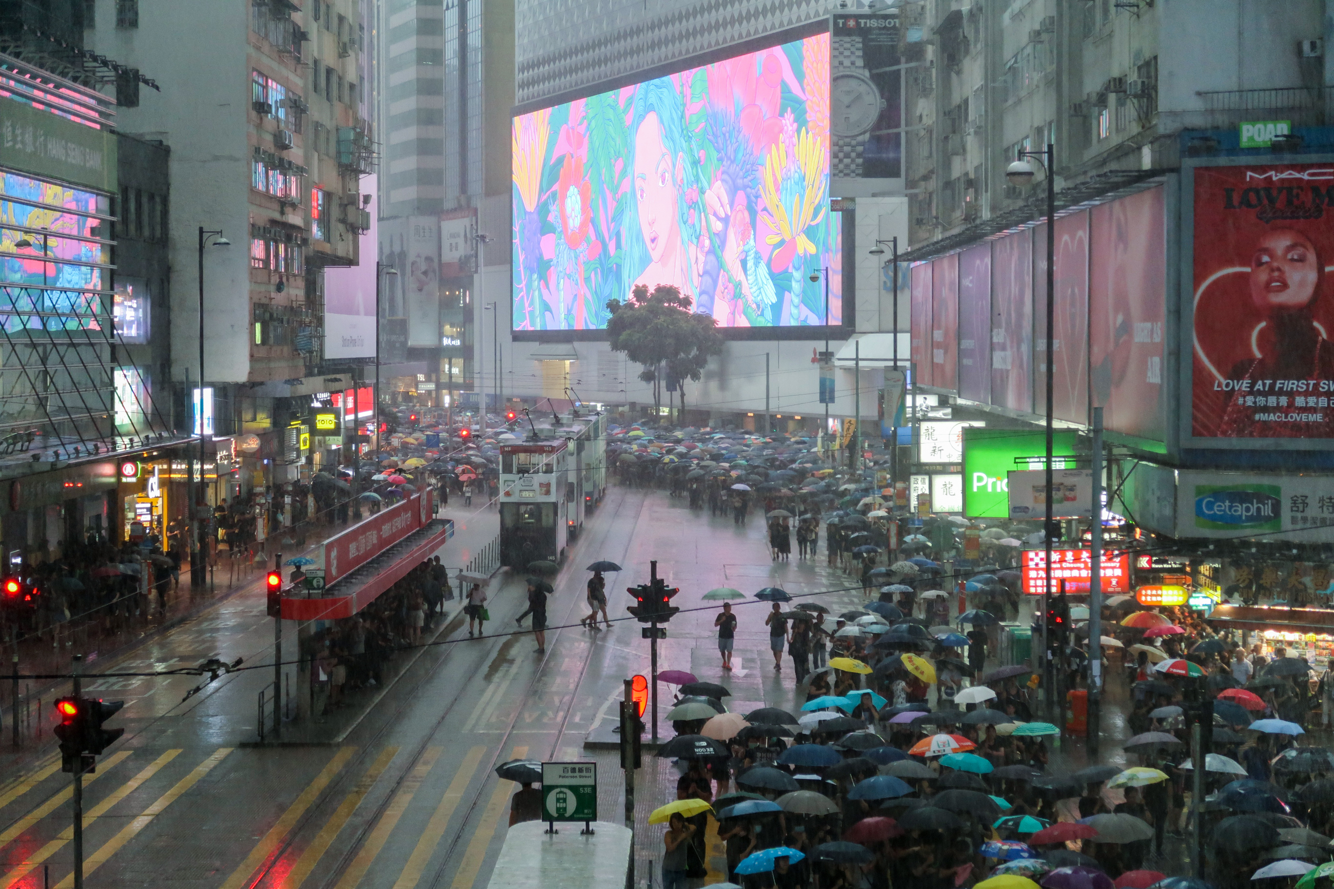 View from Yee Wo Street during rain